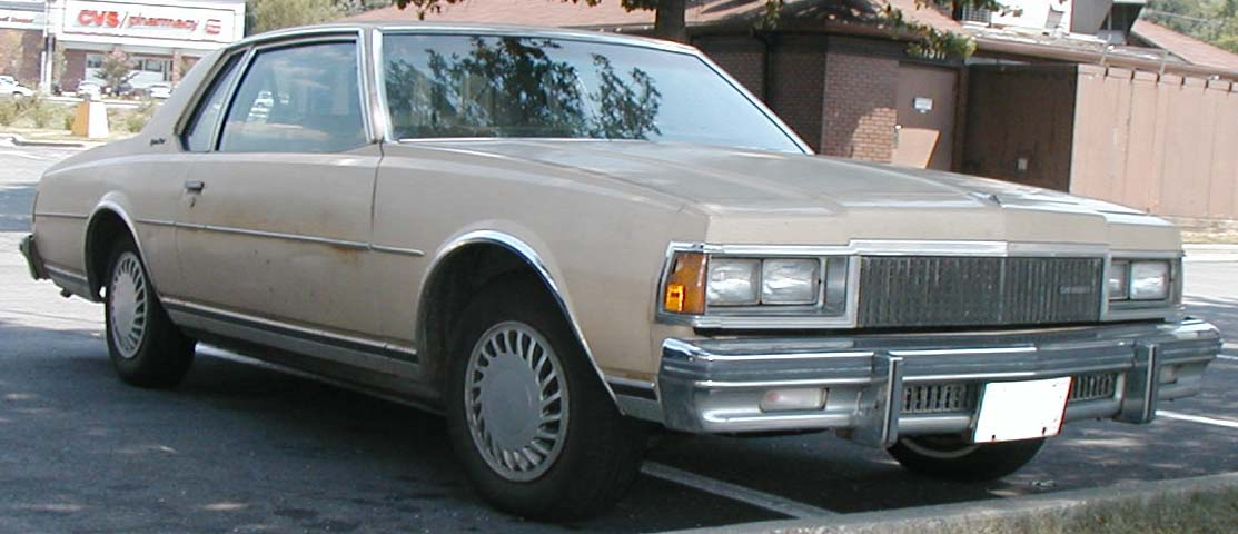 1977 Chevrolet Caprice coupe photographed in USA.